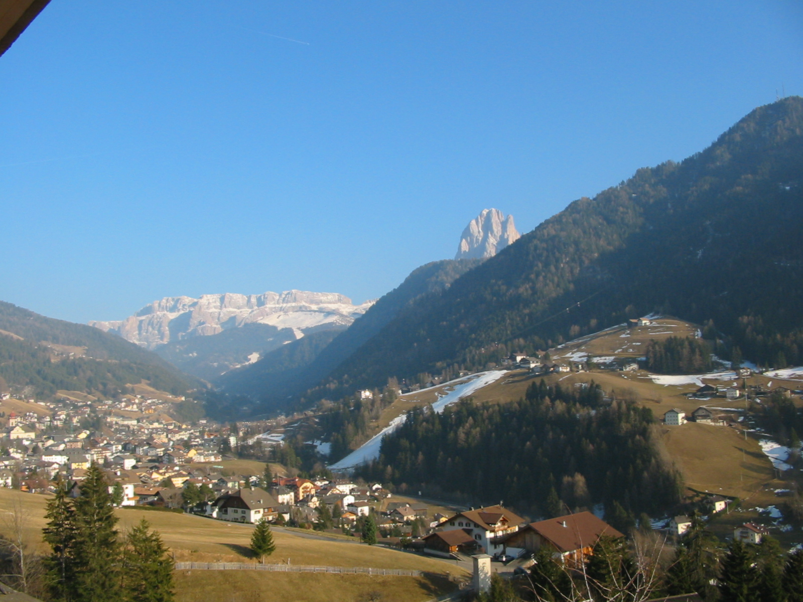 Ortisei panorama, Sellagroup and Sassolungo (Langkofel) to the right